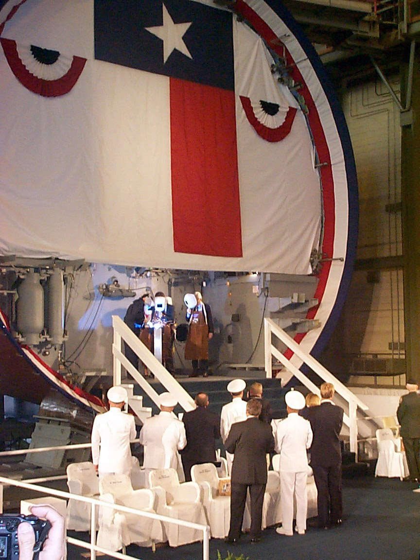 Newport News, VA (Jul 12, 2002) -- (Left to Right) The Secretary of the Navy Gordon R. England, First Lady Laura Bush, President of Northrop Grumman Newport News Thomas Schievelbein, and Senator John Warner (R-VA) celebrate an official ceremony to authenticate the keel of the next Virginia-class attack submarine Texas (SSN 775). The First Lady used chalk to mark her initials on a metal plate, which is then traced by a welder’s torch and permanently affixed to the stern of the boat. Texas is the second of the Virginia-class submarines with advanced technologies, increased firepower, maneuverability and stealth. She is scheduled for delivery to the Navy in 2005. U.S. Navy photo by Chief Journalist David Nagle. (RELEASED)